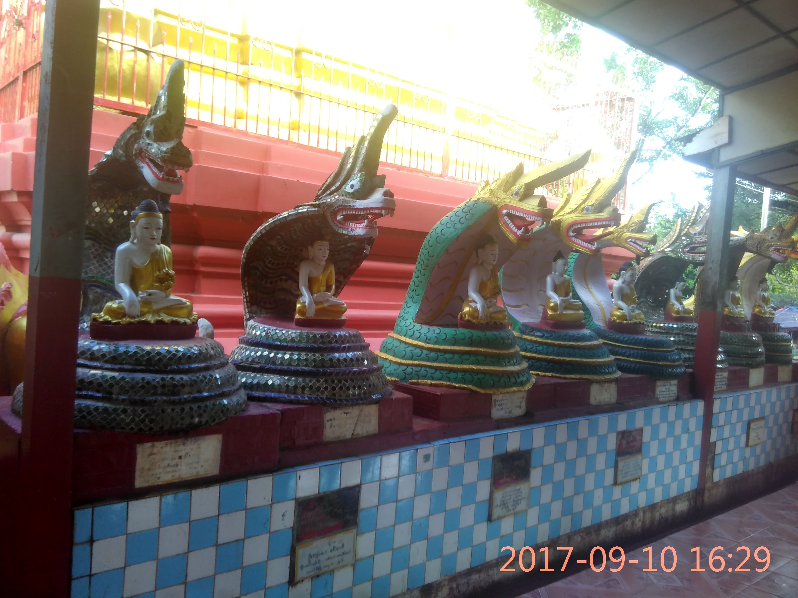 A place of Snake Pagoda မြန်မာဘာသာ: မန္တလေးတိုင်းဒေသကြီးရှိ မြွေဘုရား၏ မြင်ကွင်းတစ်နေရာ